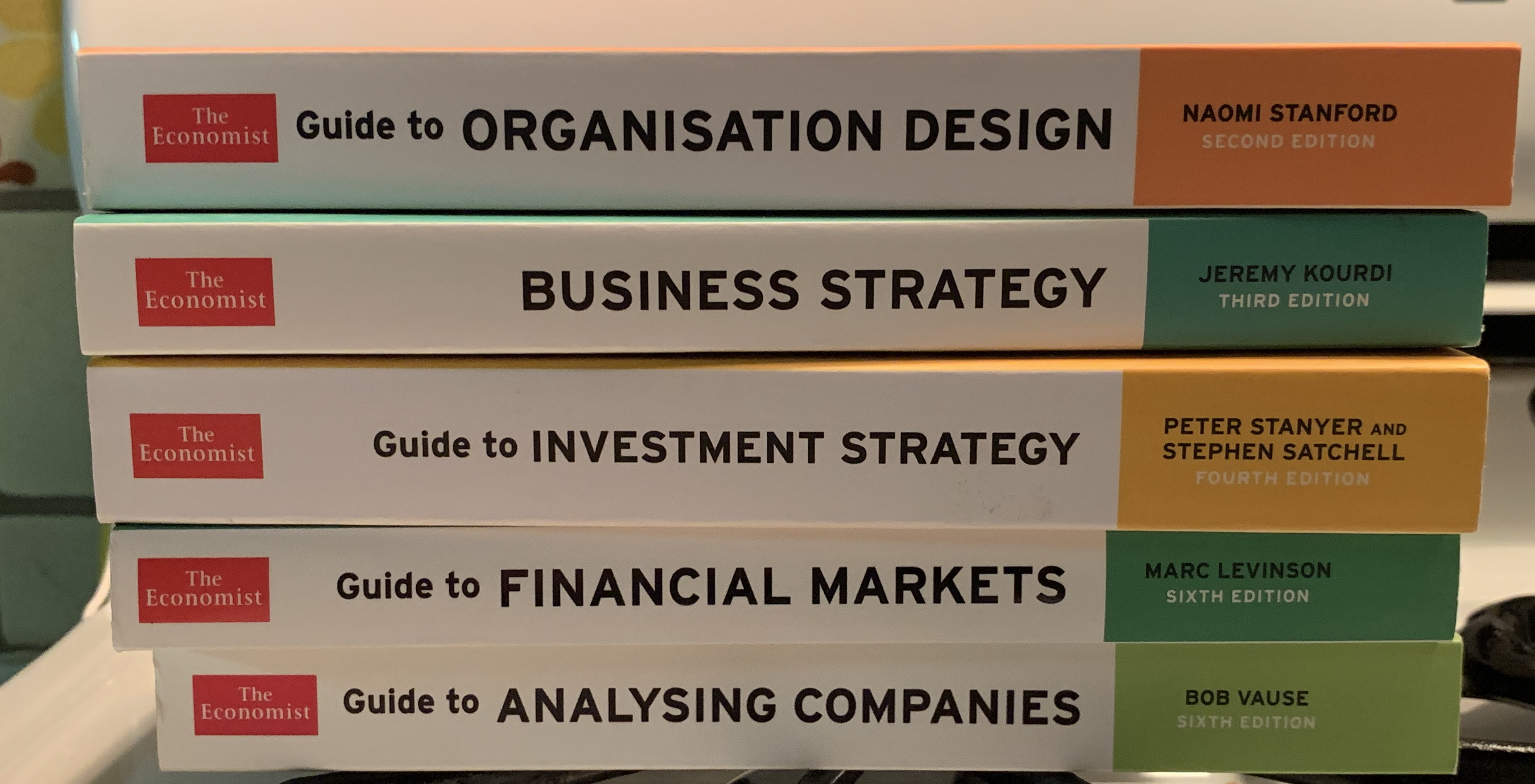 A collection of books (technical manuals) published by The Economist